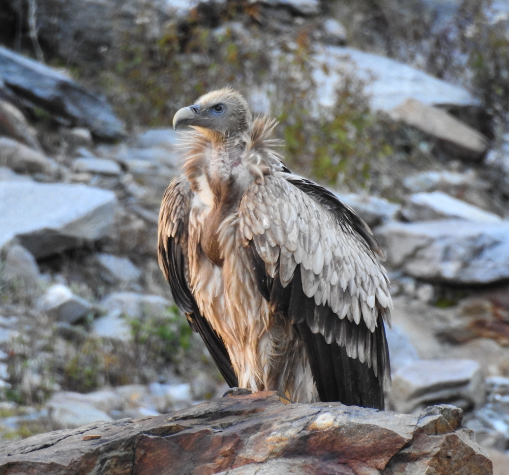 Gyps himalayensis seen at Lower Waterfall area, Rupin Pass trail, Shimla Dist, Himachal Pradesh